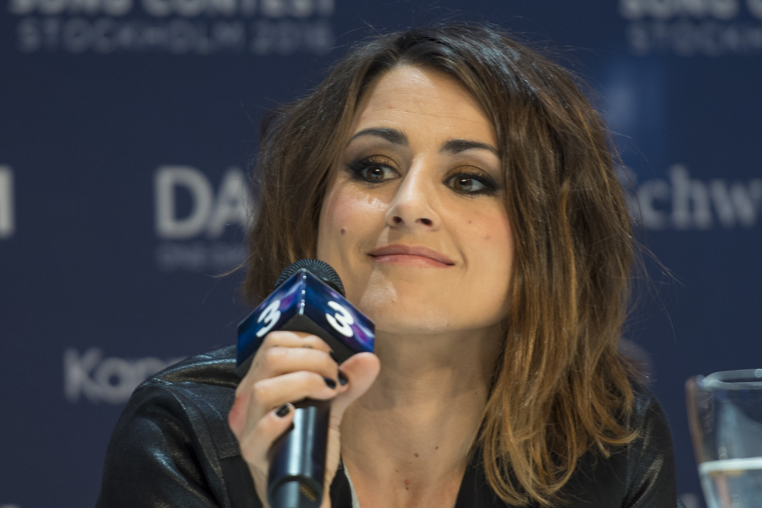 Barei at a Meet & Greet during the Eurovision Song Contest 2016 in Stockholm. (Help translate this text)